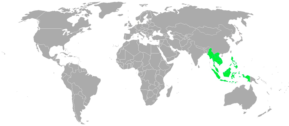 Image derived from Wikipedia and adjusted by M.Huyghebaert. Donated to the public domain.